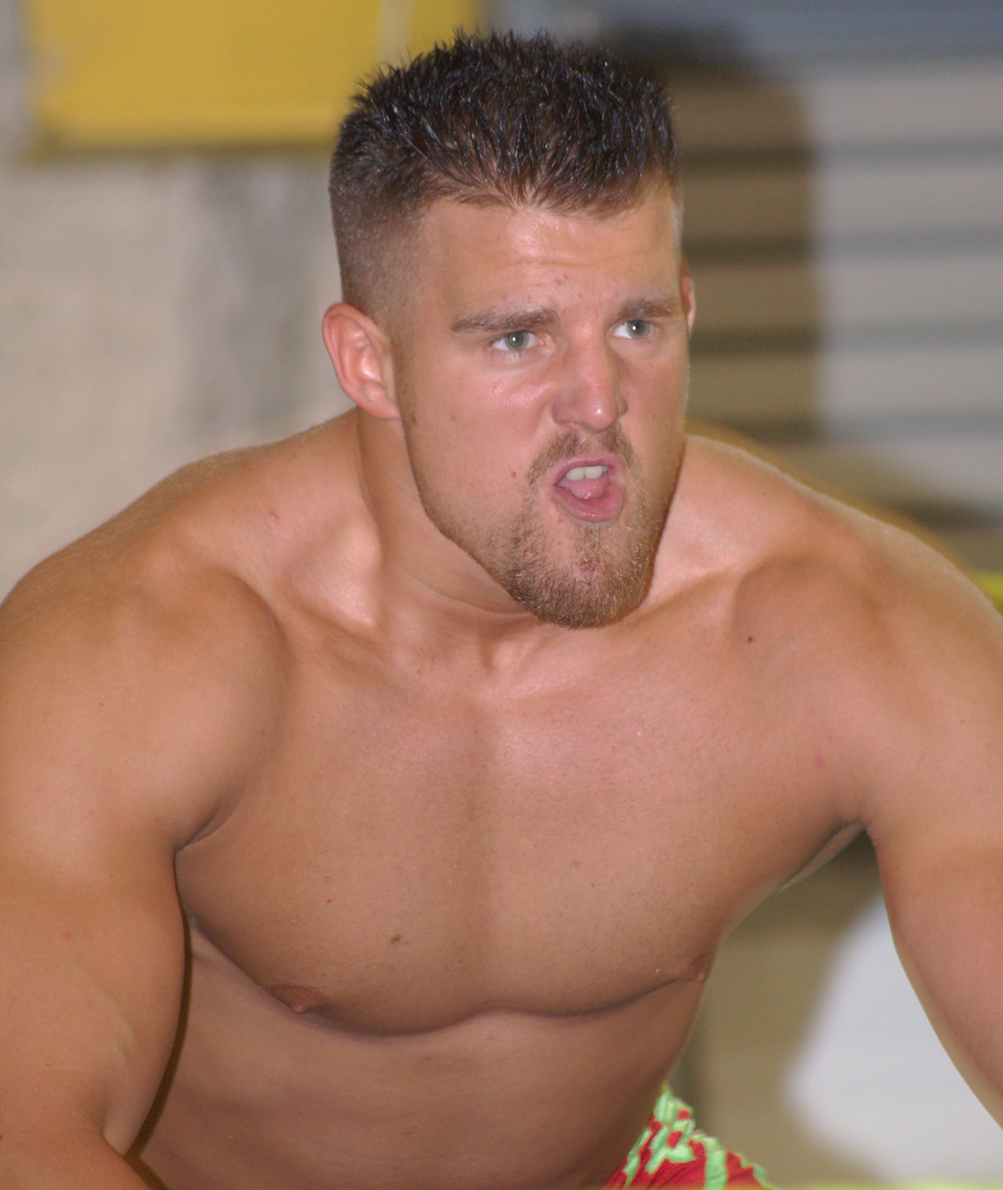 Photo I took of Mike at Derby Park Traders Circle, Louisville, KY Aug. 26, 2007